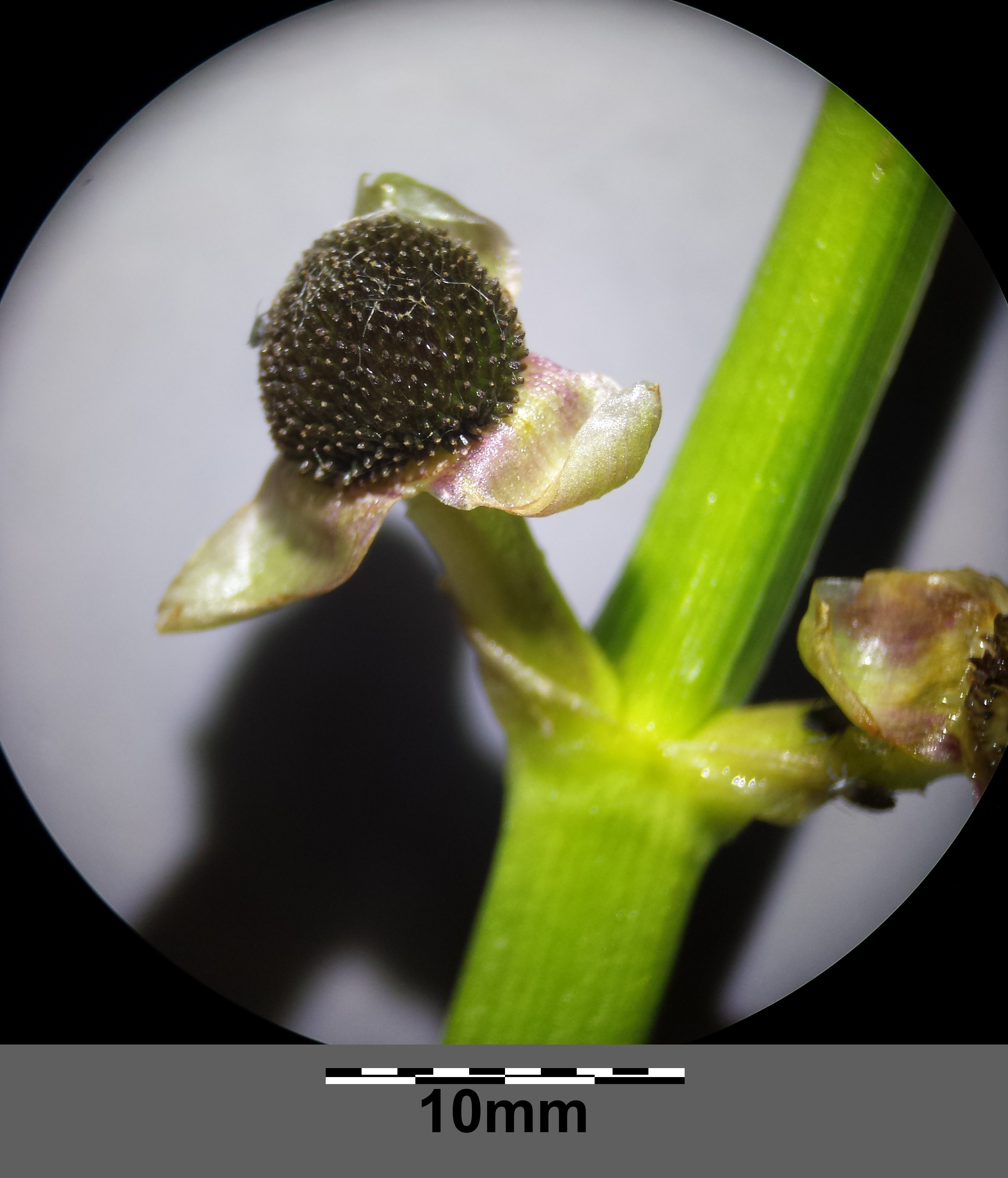 ♀ Flower Taxonym: Sagittaria sagittifolia ss Fischer et al. EfÖLS 2008 ISBN 978-3-85474-187-9 Location: Neue Donau, district Korneuburg, Lower Austria - ca. 160 m a.s.l. Habitat: shore